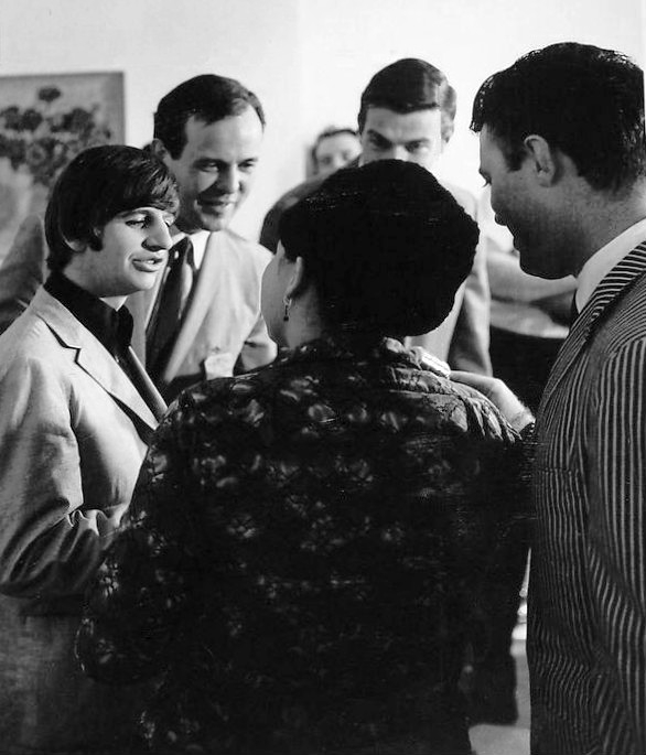 Photo of Ringo Starr. This appears to have been taken when he was one of the Beatles. Taken by a New York photographer at an unnamed location, the photo also appears to include Beatles' manager Brian Epstein, or his assistant, Peter Brown, who had a resemblance to Epstein, to the left of Starr. The identities of the other people shown in the photo are not known. The photo has crop markings but there is no notation if it was used in any publication.